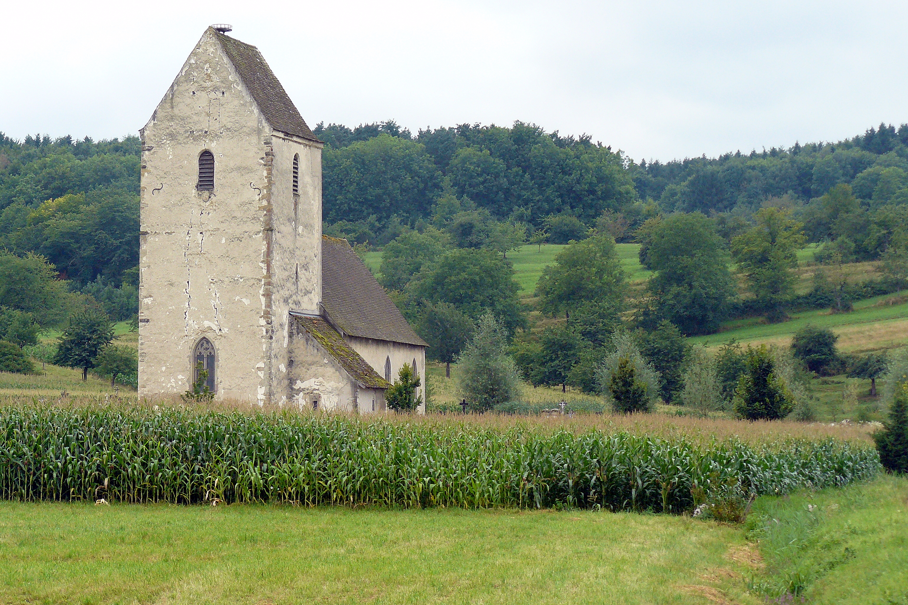 Church of Saint-Martin-des-Champs at Oltingue, Alsace, France